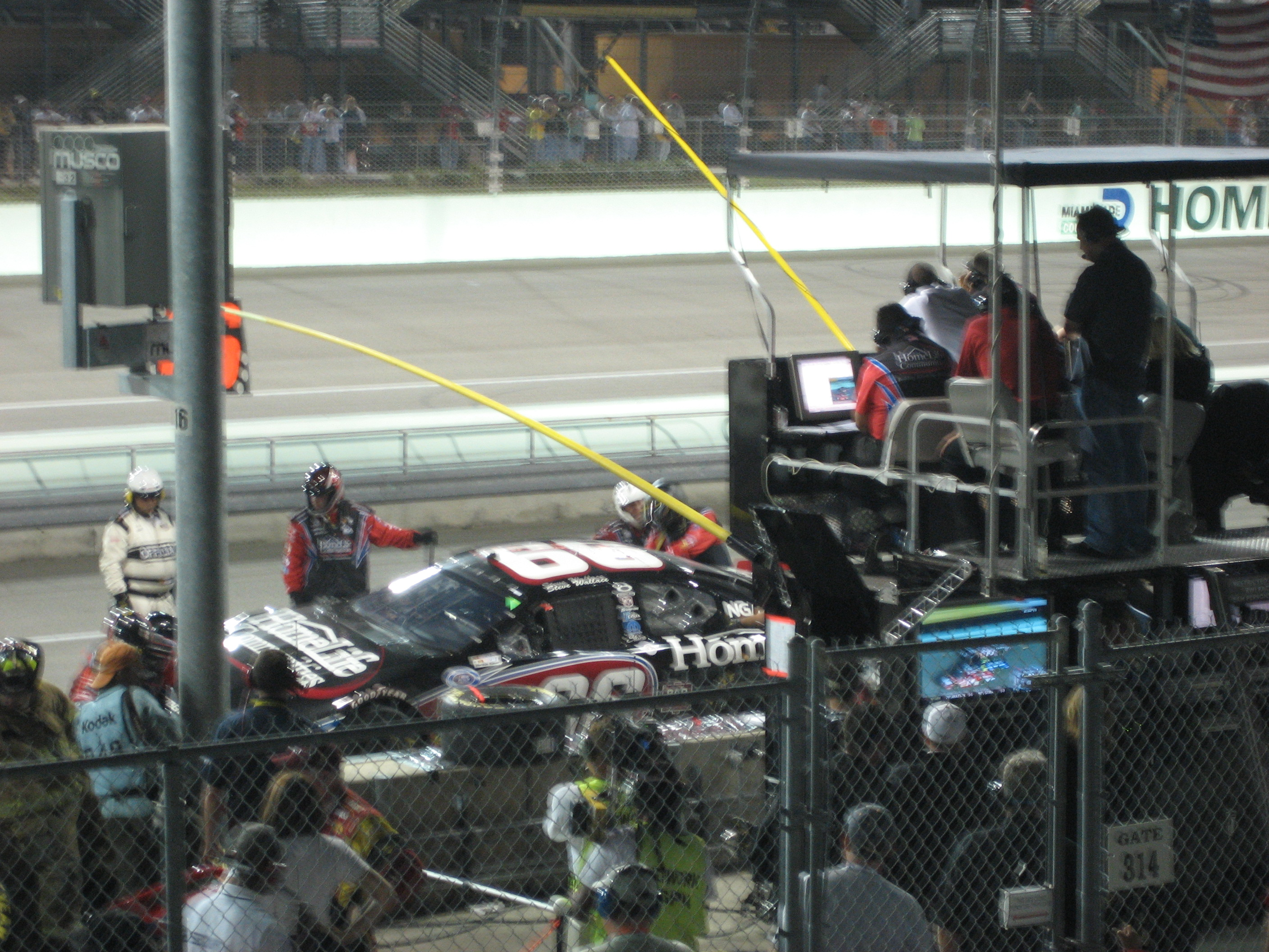 Steven Wallace's team works on his car after he made contact with another car during the 2007 Ford 300 at the Homestead-Miami Speedway.